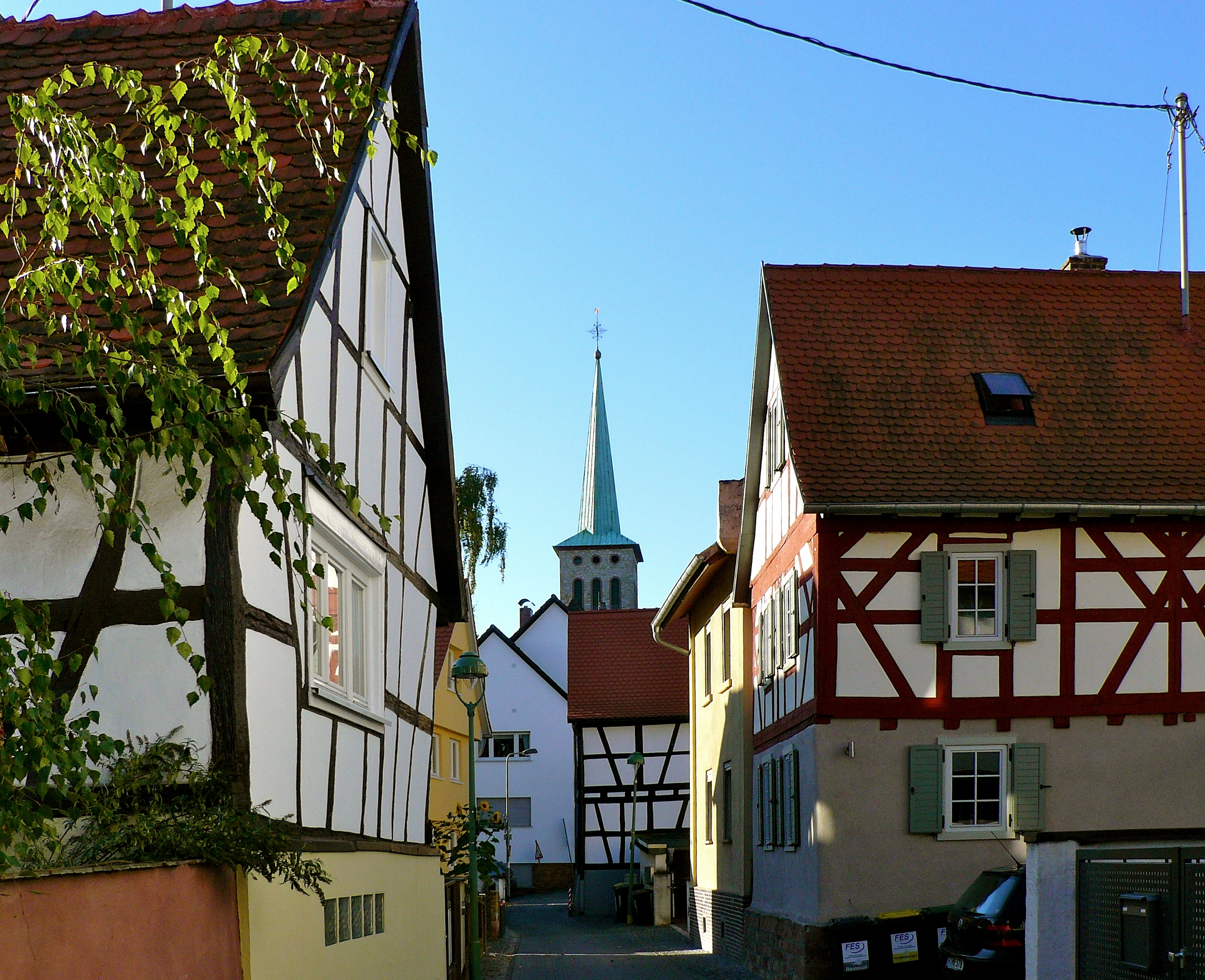 St. Mary's Church in Seckbach (1710), Frankfurt, Hesse, Germany